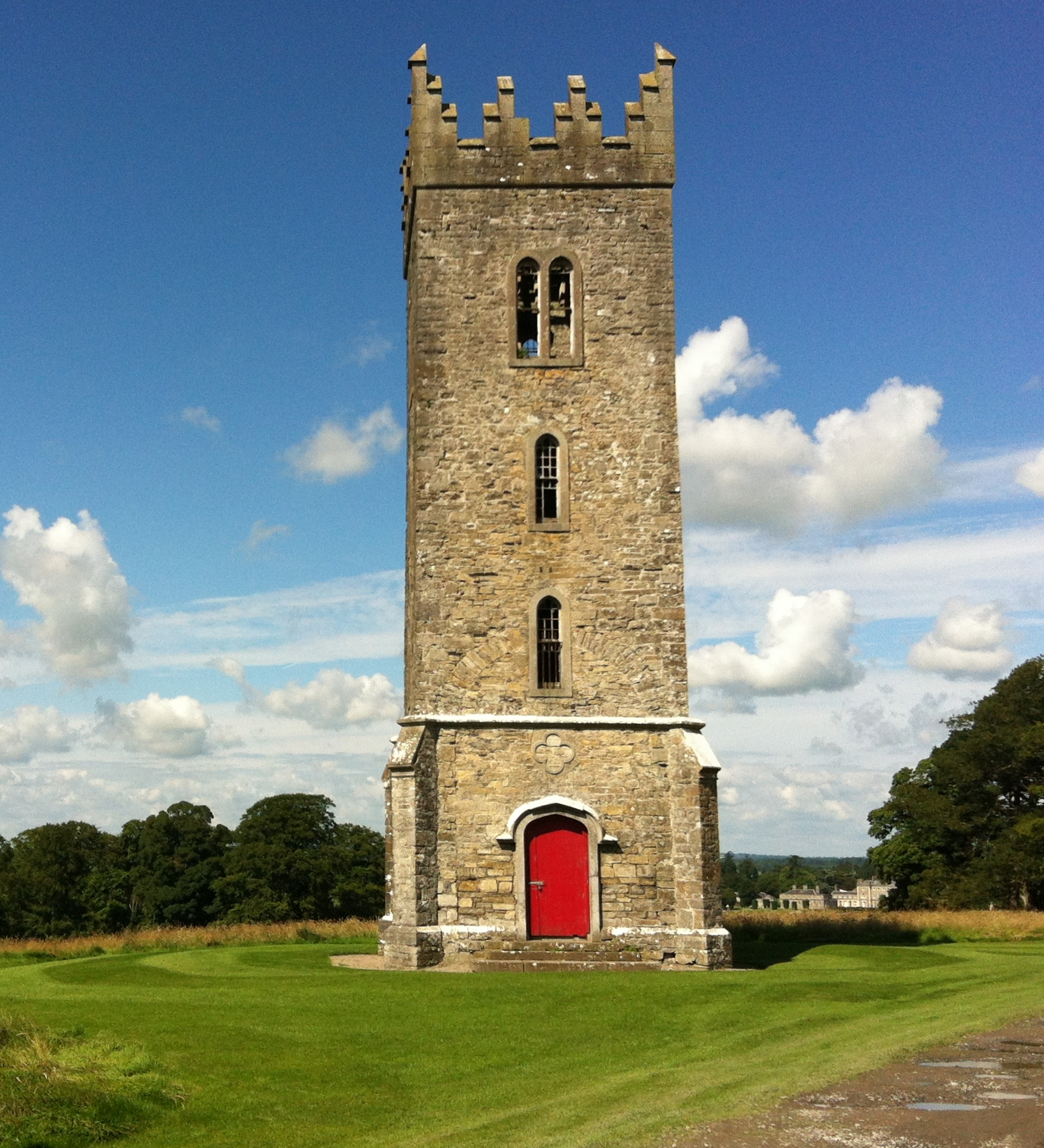 Tyrconnell Tower, Carton Estate, Maynooth, Co. Kildare, Ireland. Allegedly built originally by Richard Talbot, 1st Earl of Tyrconnell.